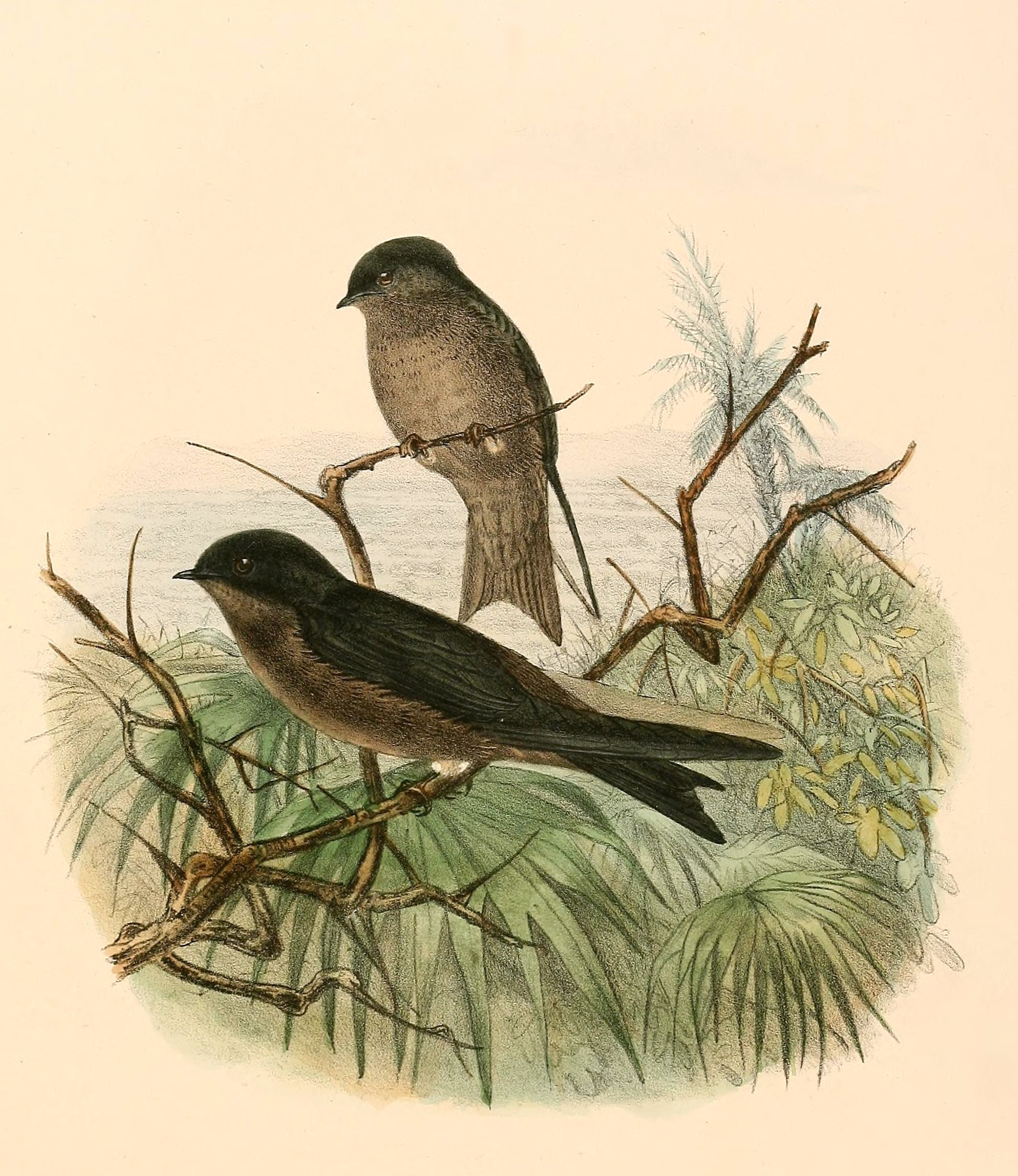 « Atticora tibialis » = Neochelidon tibialis (White-thighed Swallow)